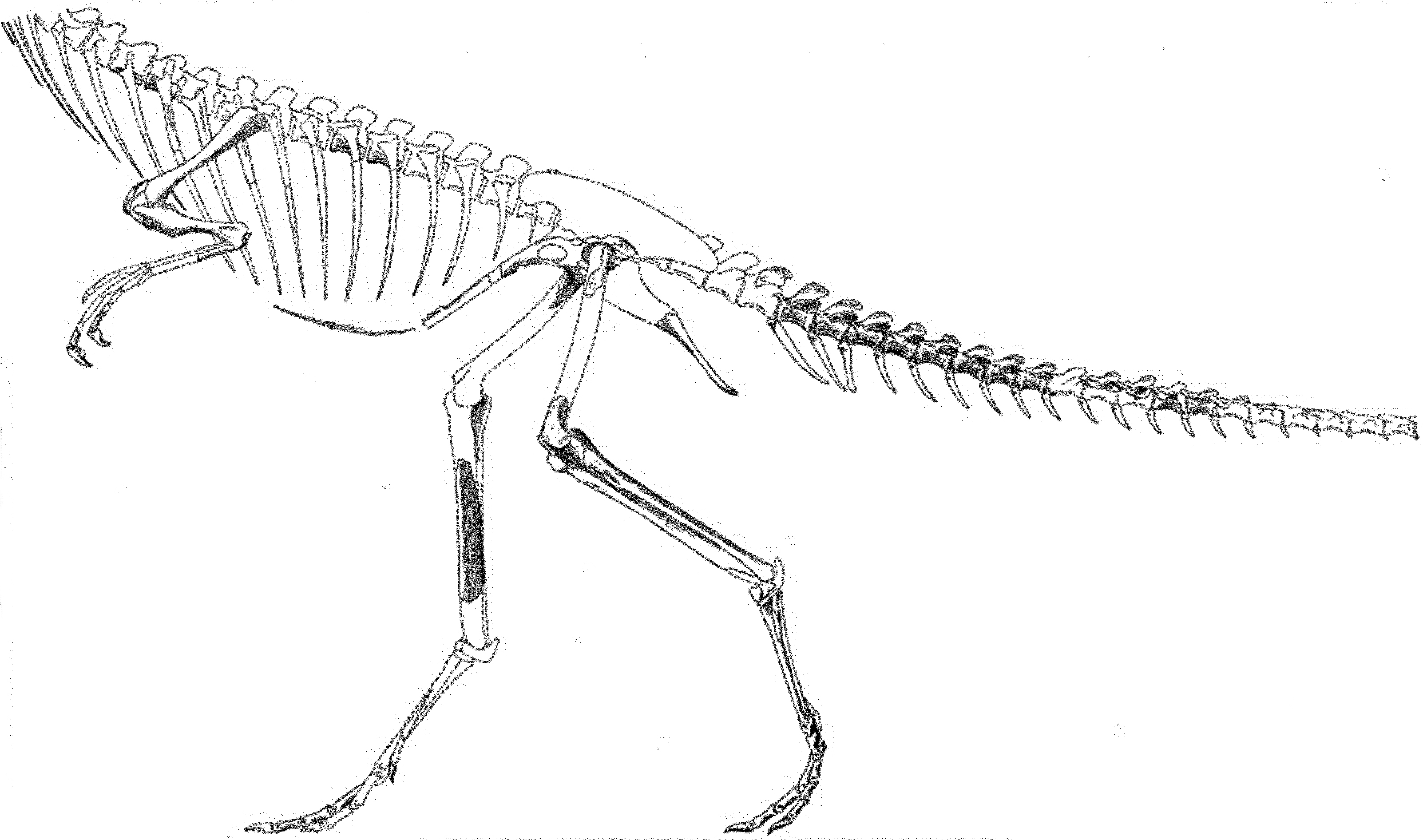 Restoration of the Segisaurus halli holotype skeleton